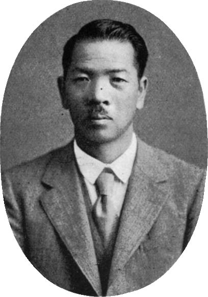 Kiichirō Moriuchi, current superintendent of the Elementary School attached to the Hiroshima Higher Normal School.